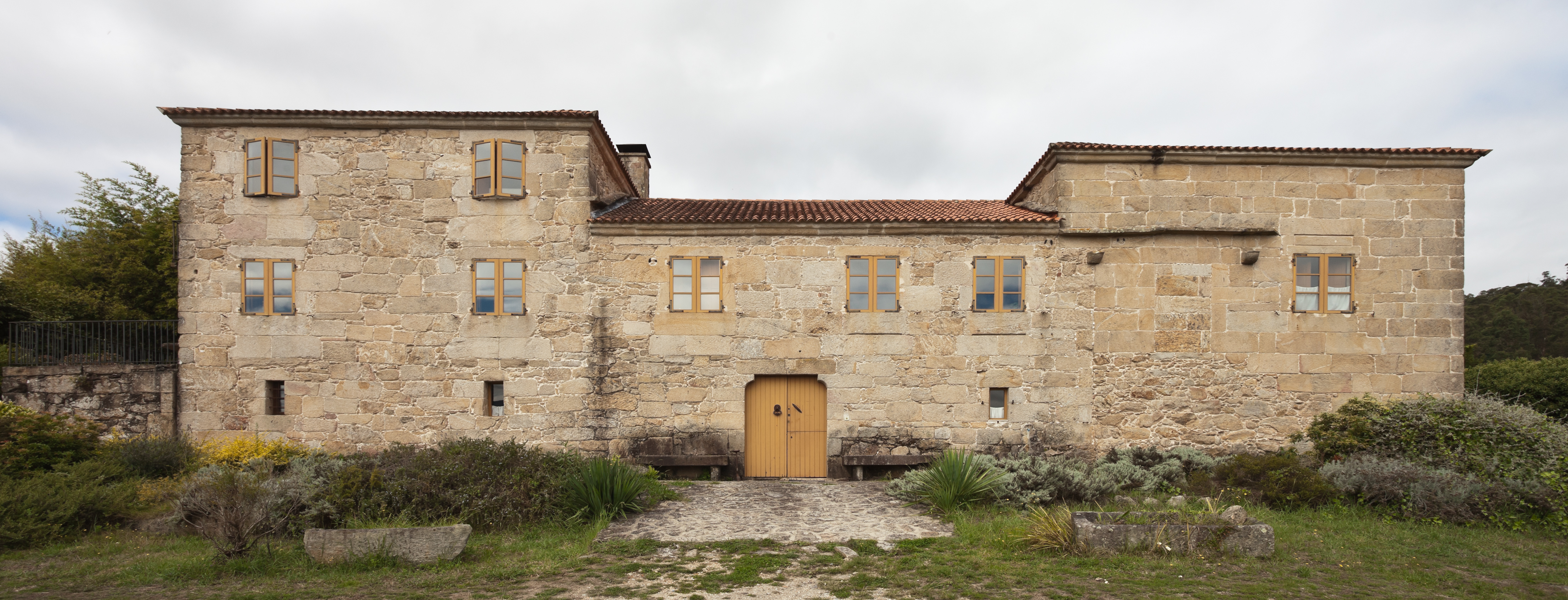 Lestrobe Towers or Hermida Palace, Lestrobe, Dodro, Galicia (Spain)